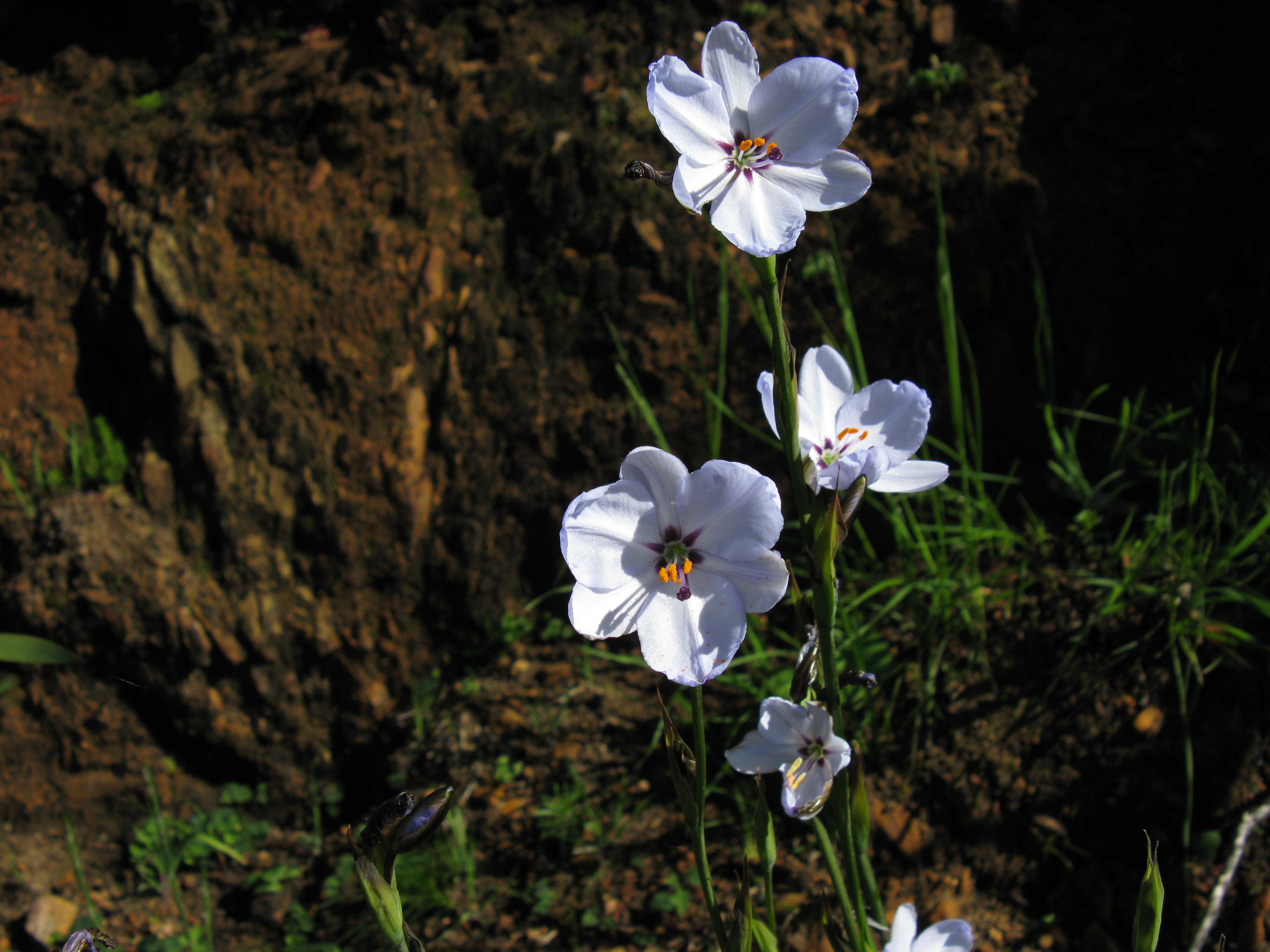 Aristea spiralis Separate young plants. Endemic to Cape Fynbos mountains